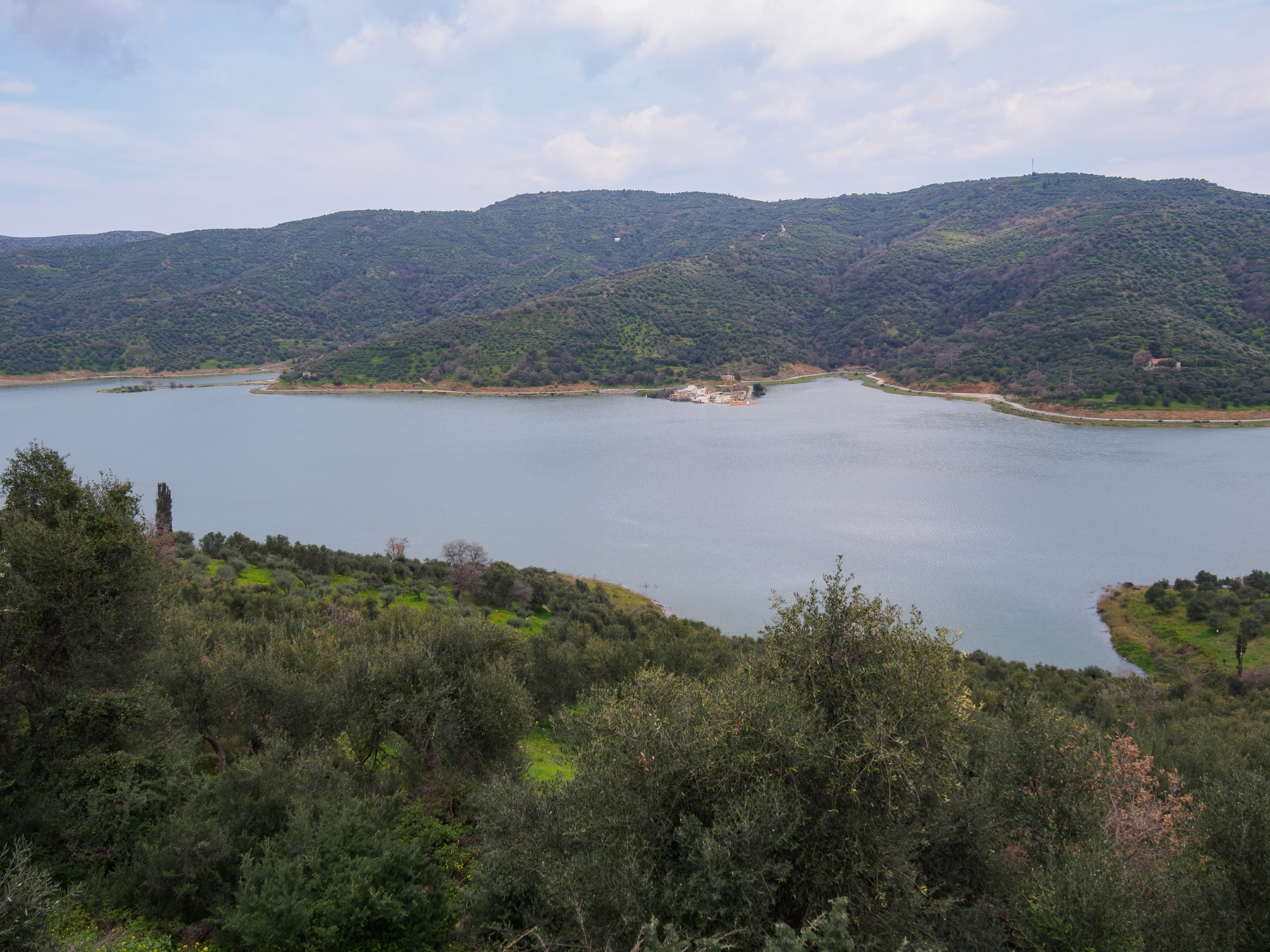 Aposelemis reservoir, few days before filling up completely for the first time.